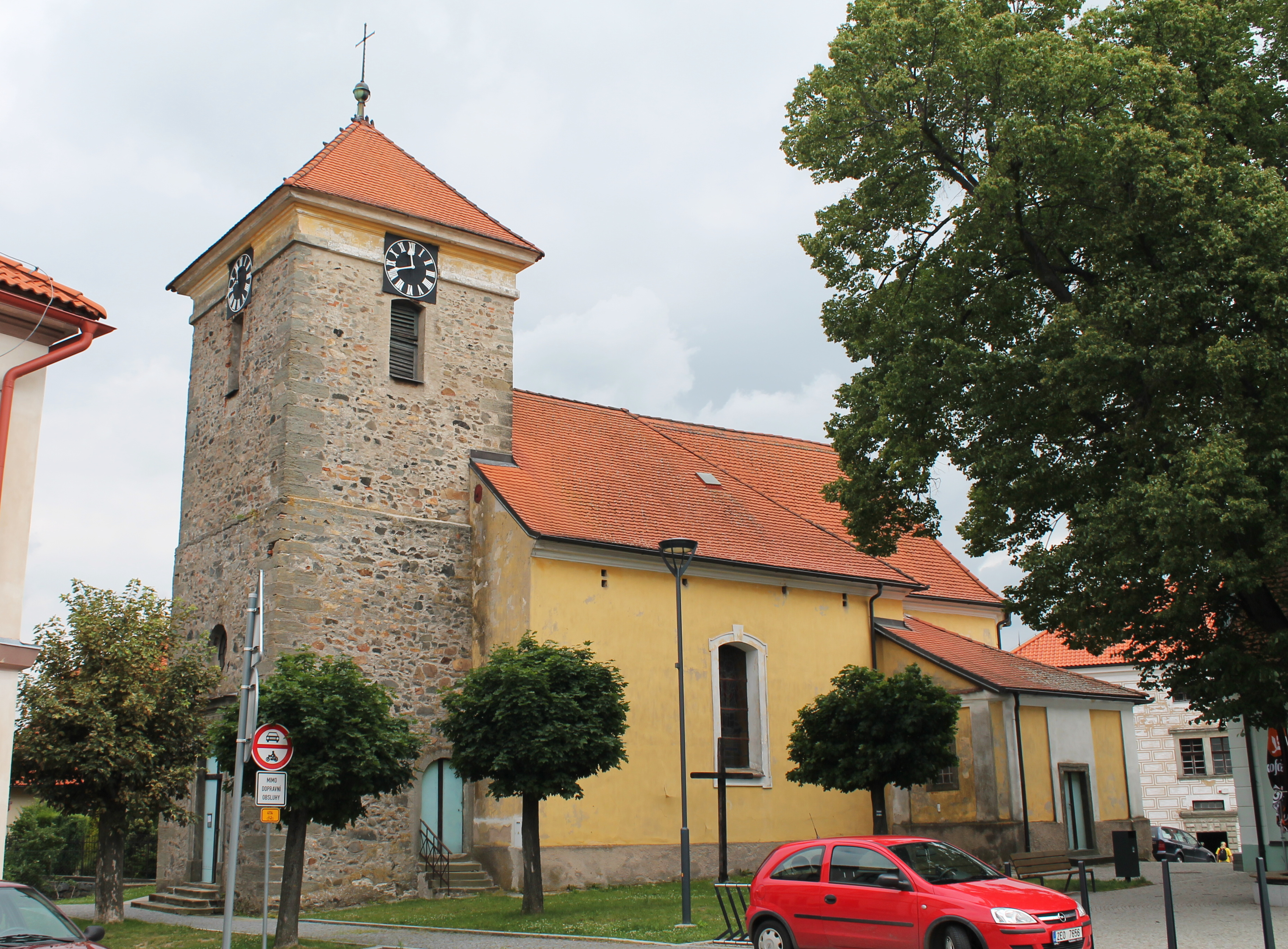 Church of Saint Giles, Nasavrky, Chrudim District, Czech Republic